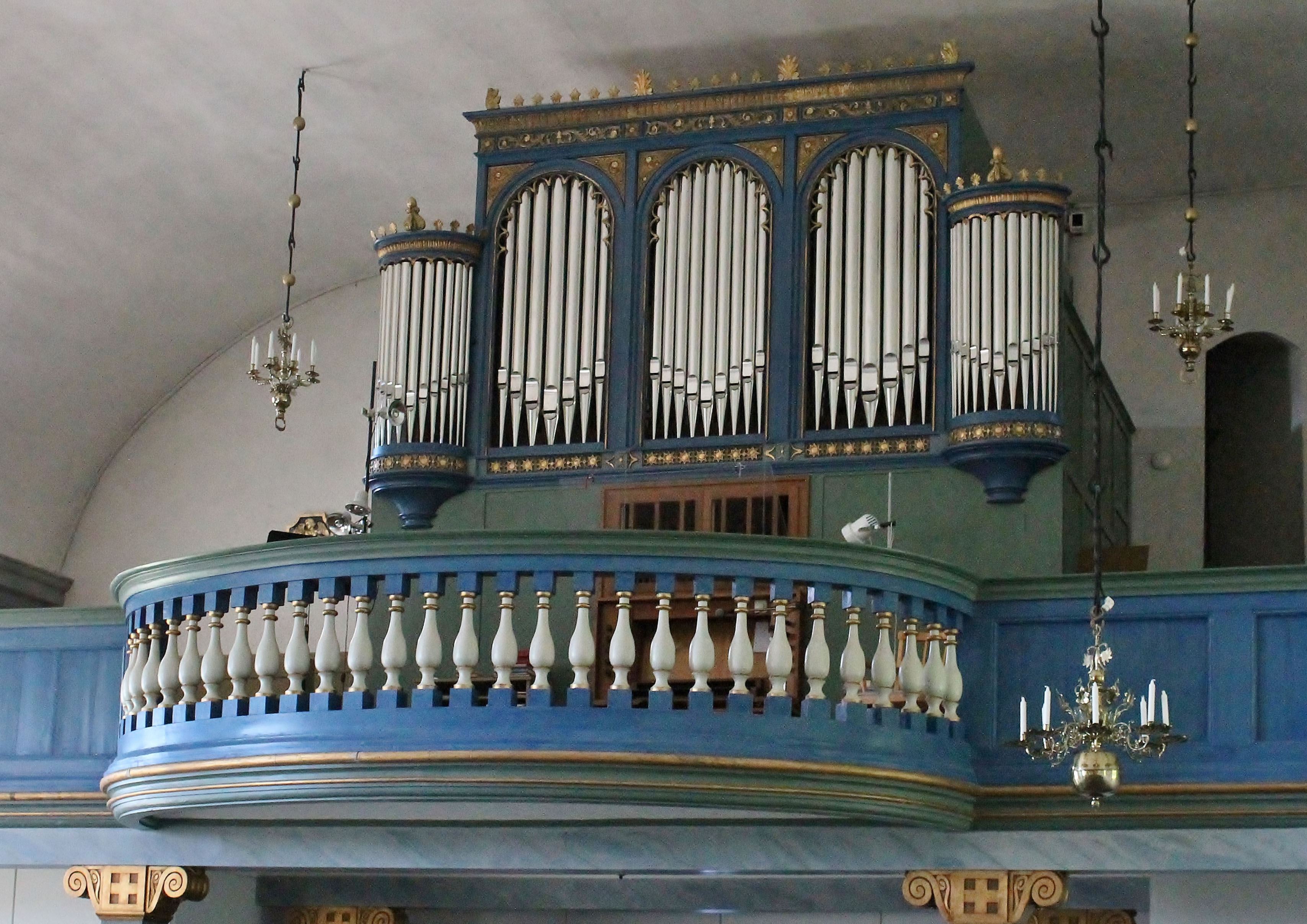 Åby Church. Organ